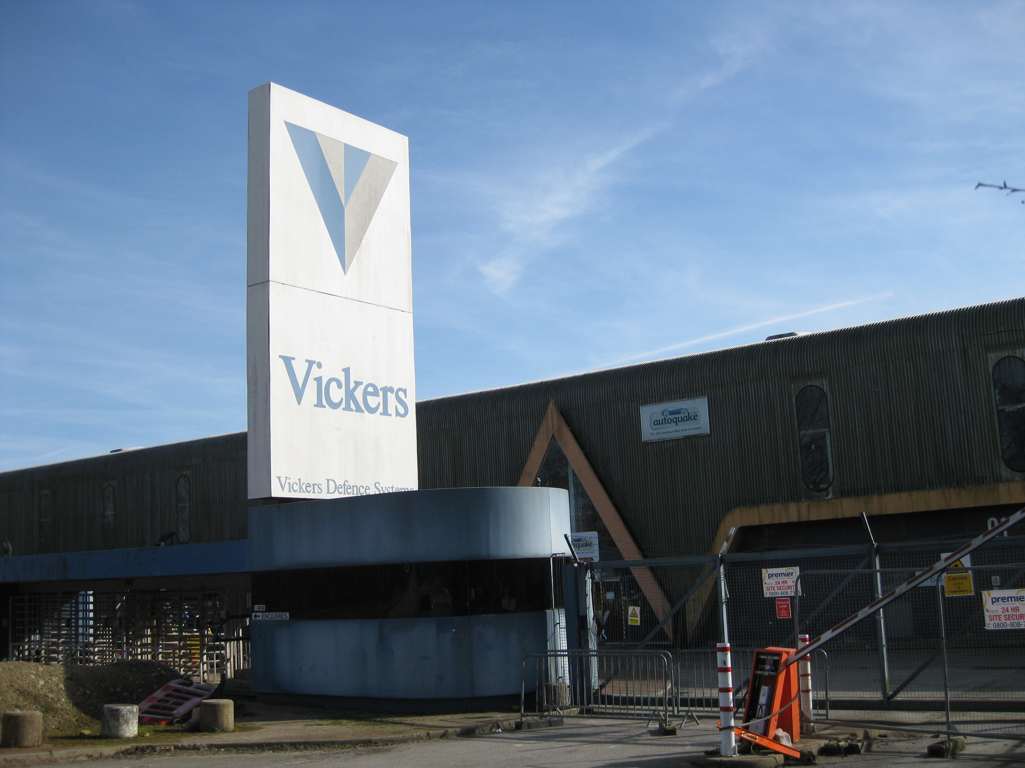 Former Vickers factory, Manston Lane, Leeds